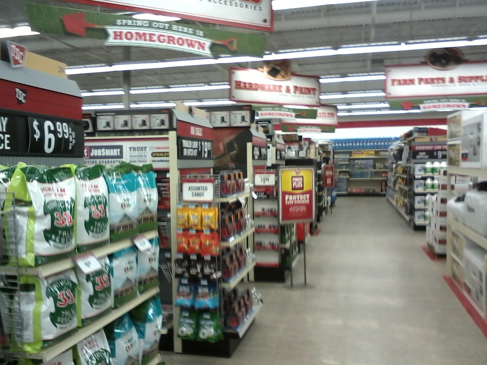 Tractor Supply Company, East Tawas, MI.